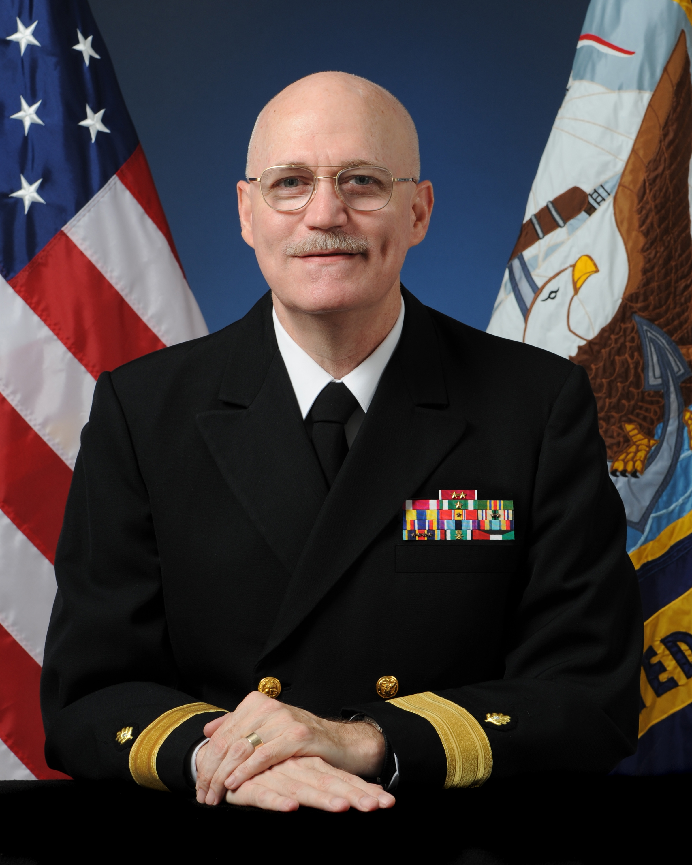 Rear Admiral Kiser, Commandant of the Medical Education and Training Campus at Fort Sam Houston, San Antonio, Texas